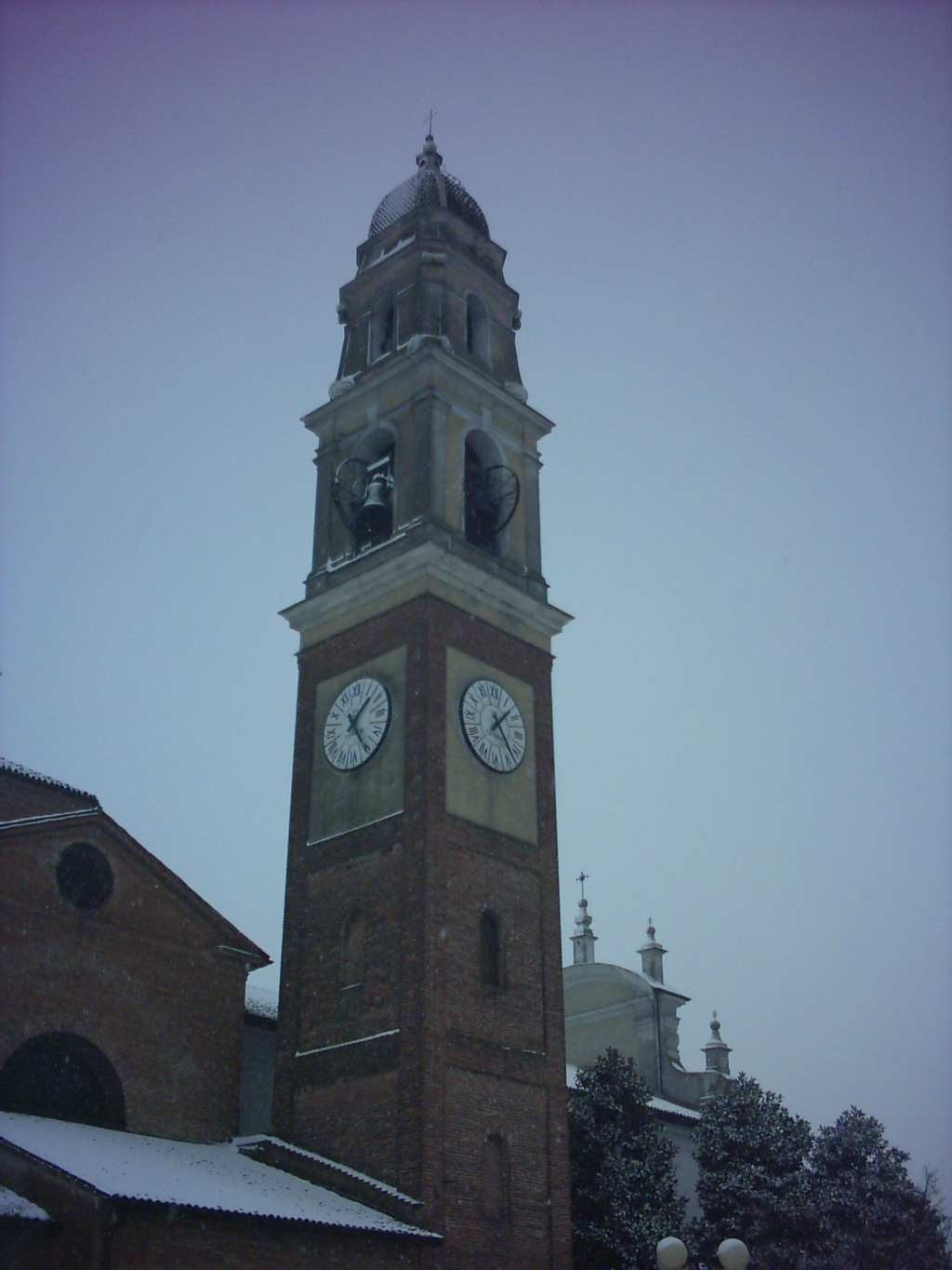 The 17th-century bell tower of St. Archelao Church, situated in Castelverde, Italy.